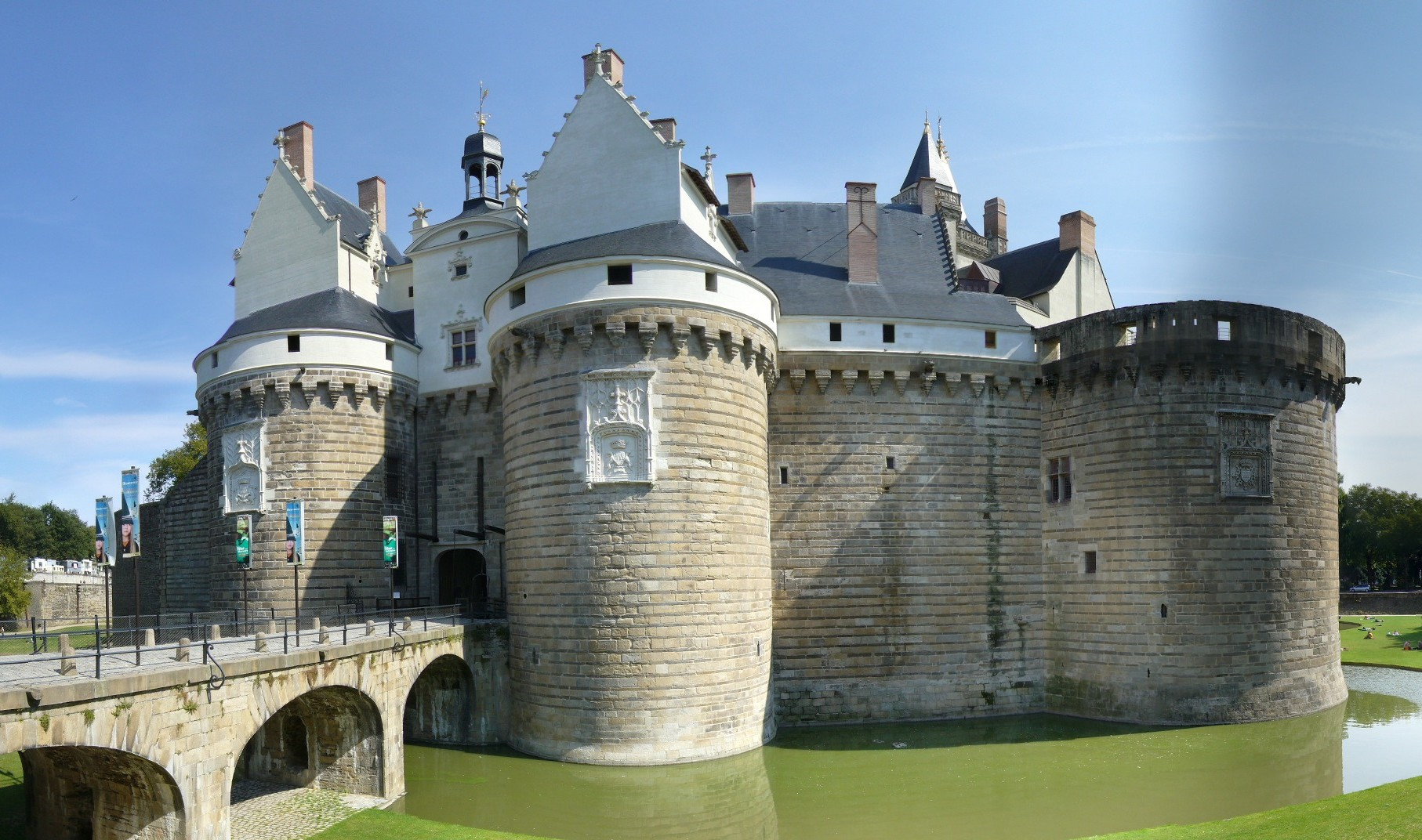 Château des Ducs de Bretagne in Nantes, entrance. Images merged with HUGIN